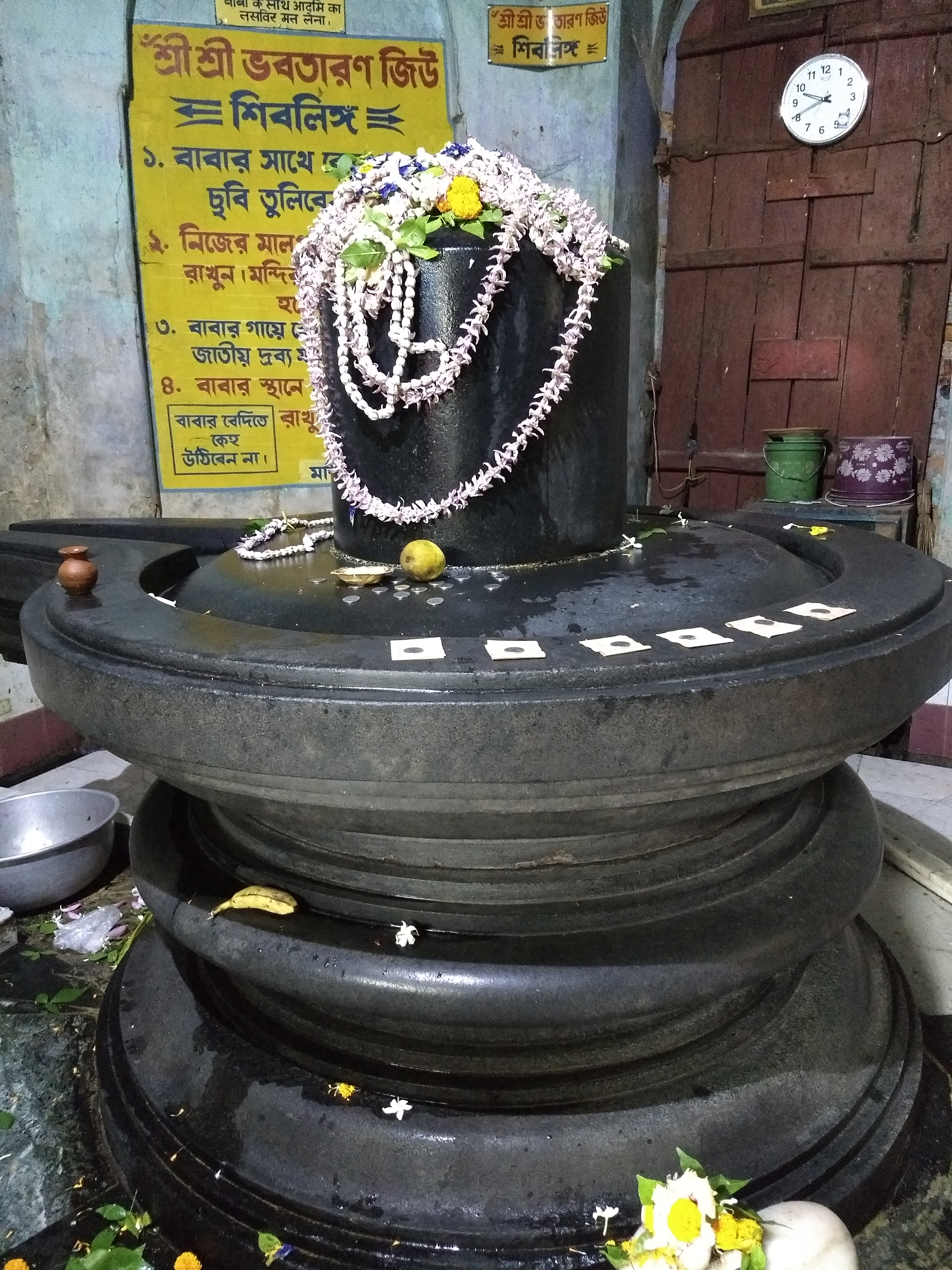 Vobotaron shib, Nabadwip